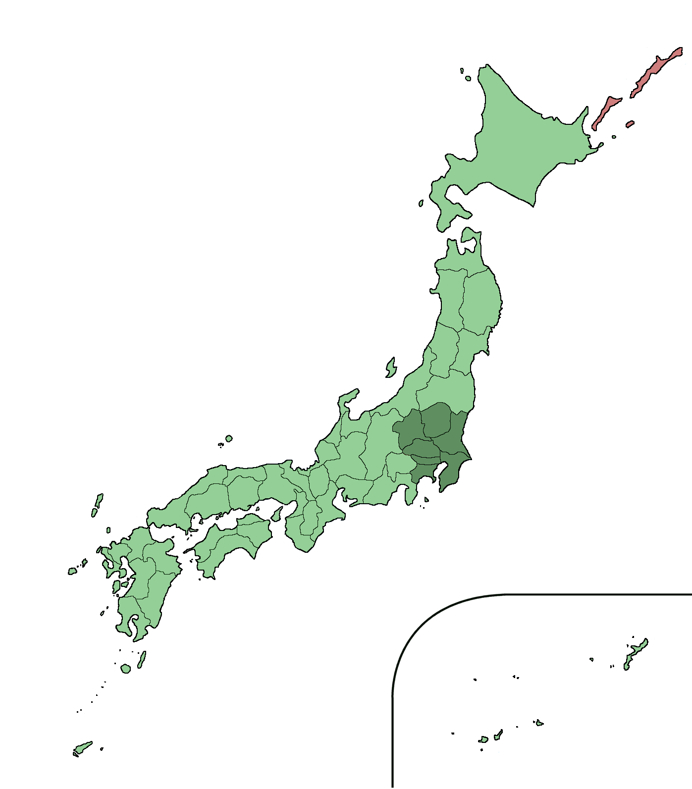 Large size map of Japan with Kanto region highlighted, self made but originally based on a japanese mapbook.